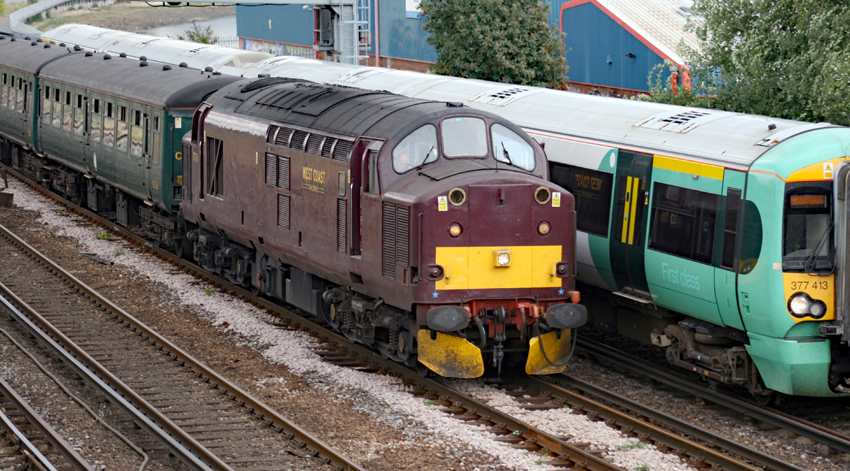 37 706 in West Coast Railway Company livery approaching Northam Junction with an excursion. Numbering history: D6716, 37016, 37706